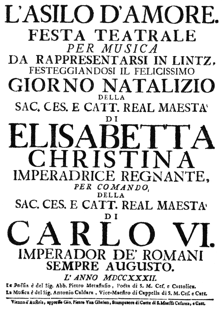 Antonio Caldara - L’asilo d’Amore - titlepage of the libretto - Linz 1732